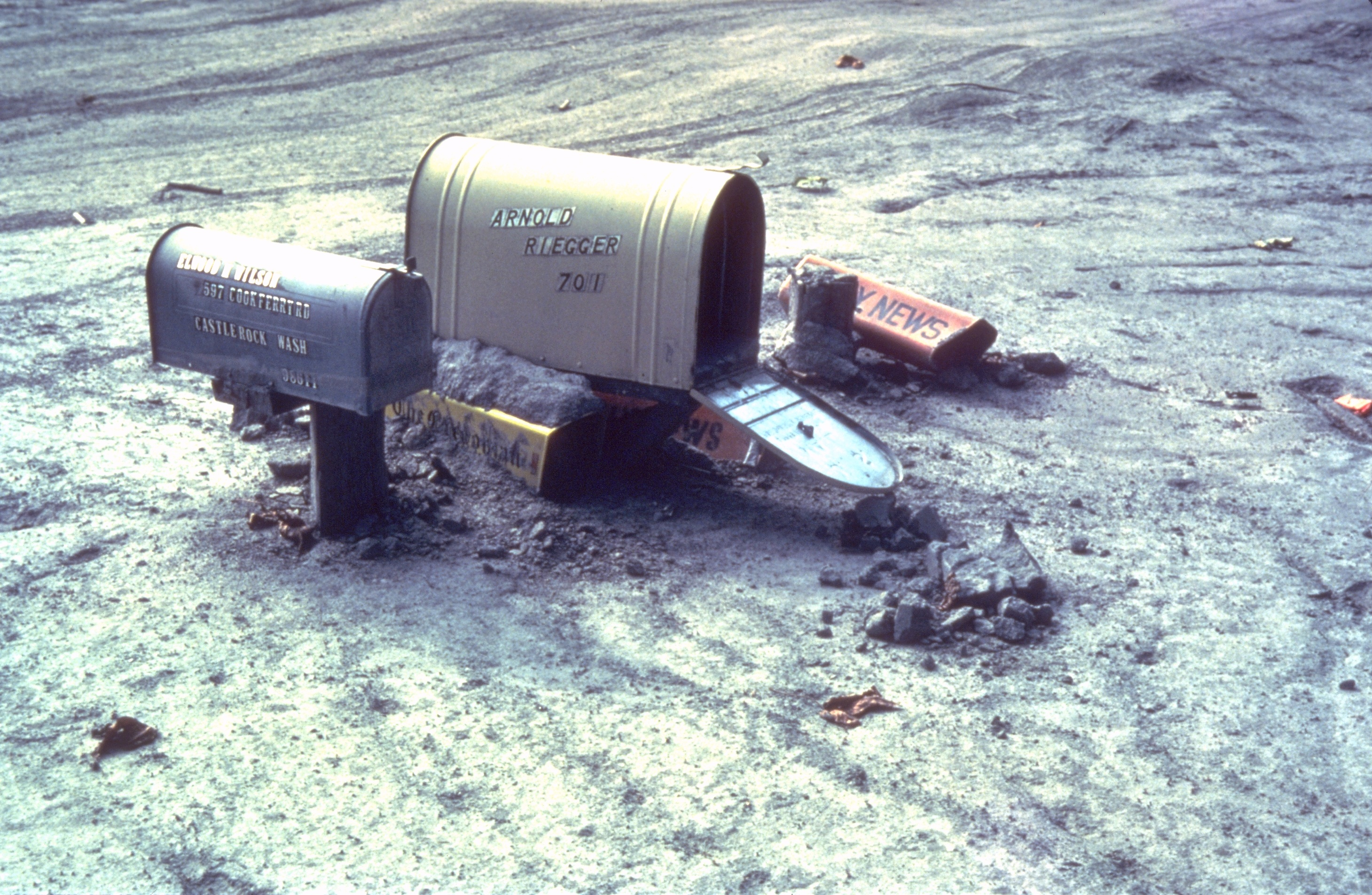 Mailboxes sticking out of a mudflow along the Cowlitz River in Castle Rock, Washington after the May 18, 1980 explosion of Mount St. Helens